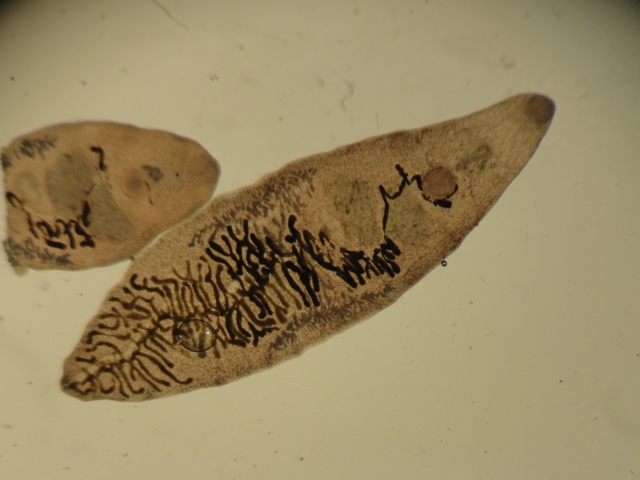 Dicrocoelium dendriticum - adults